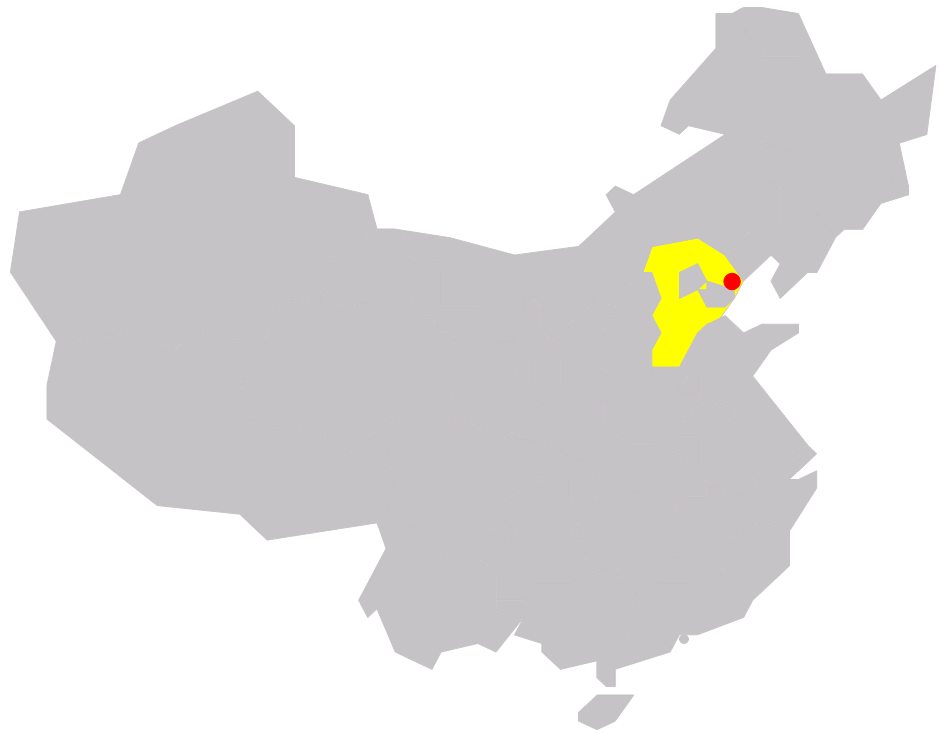 Description: position of Beidaihe in China Source: own work Date: December 2005 Author: --Immanuel Giel 12:27, 15 December 2005 (UTC) Other versions: none Beidaihe Beidaihe Beidaihe